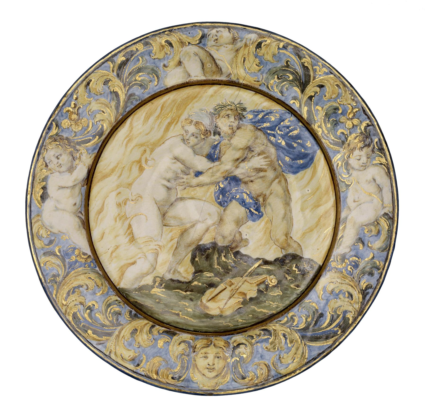 Having lost his wife Euridice to a poisonous snakebite, Orpheus, through his beautiful music, has made his way into Hades, the realm of the dead, to liberate his beloved. The only requirement of her release is that he cannot look at her before they have returned to earth. Impatient, he turns to look at her, and she is lost forever. This composition is based on a well-known engraving by Agostino Carracci (1557-1602).